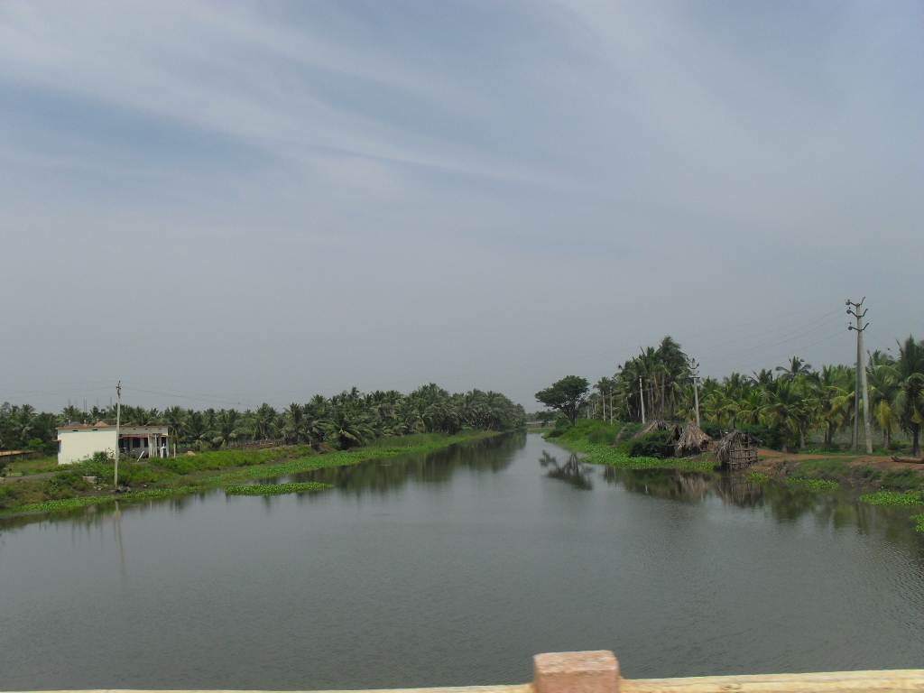 Godavari Ghattu On the Way to Katrenikona Main Road.